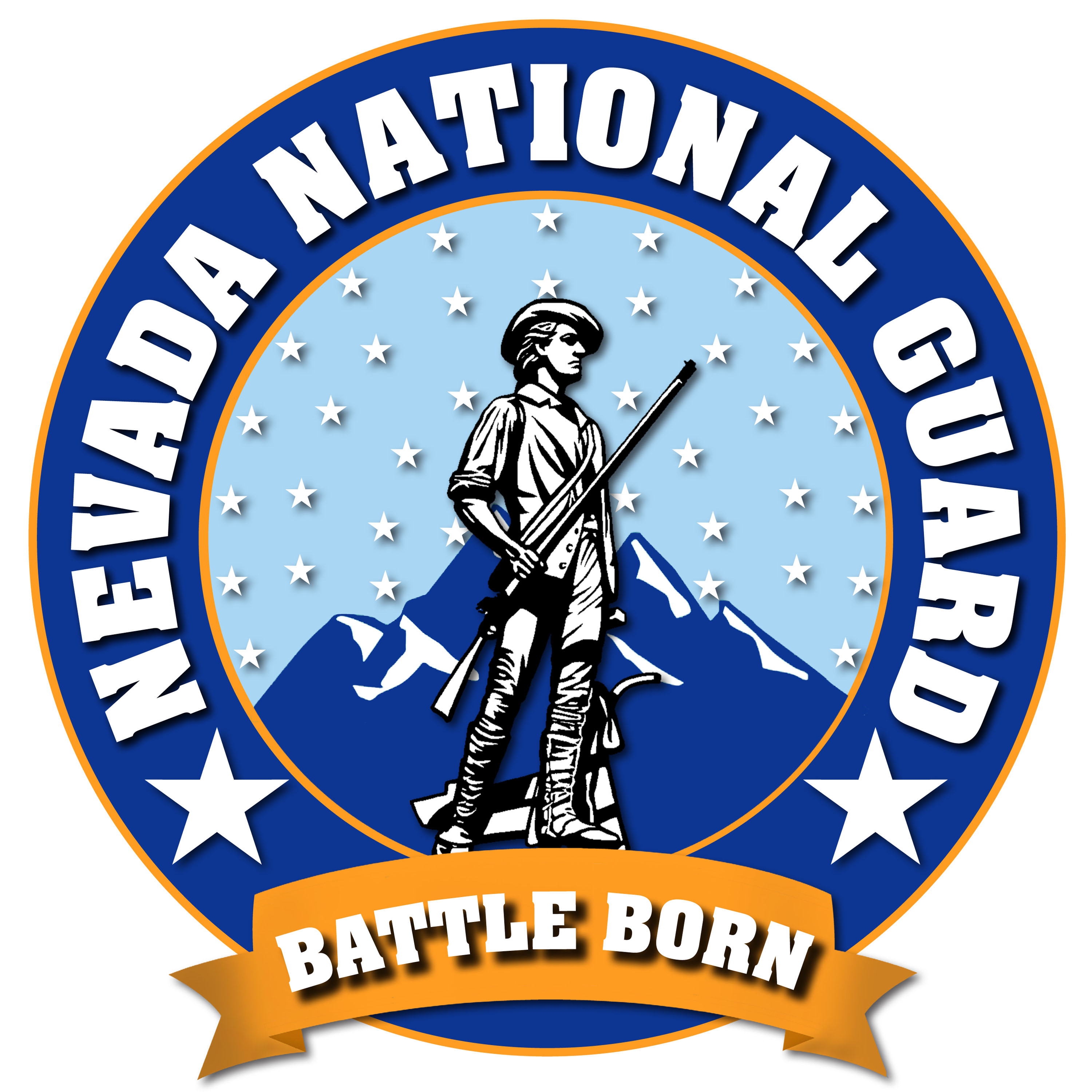 Nevada Guard logo